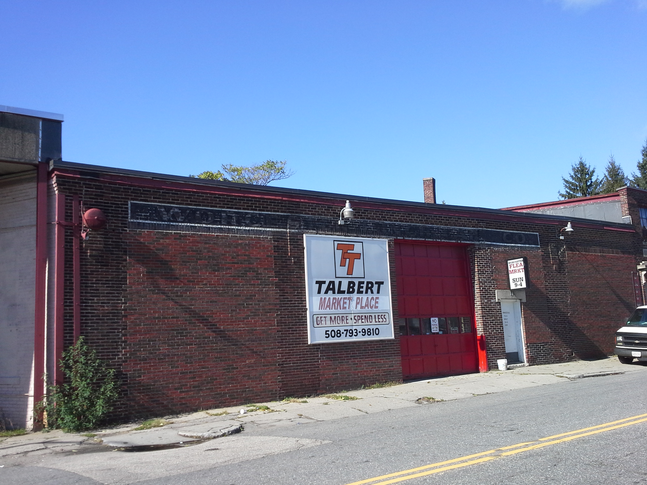 Worcester Lunch Car Company factory manufacturing building in Worcester Massachusetts MA USA